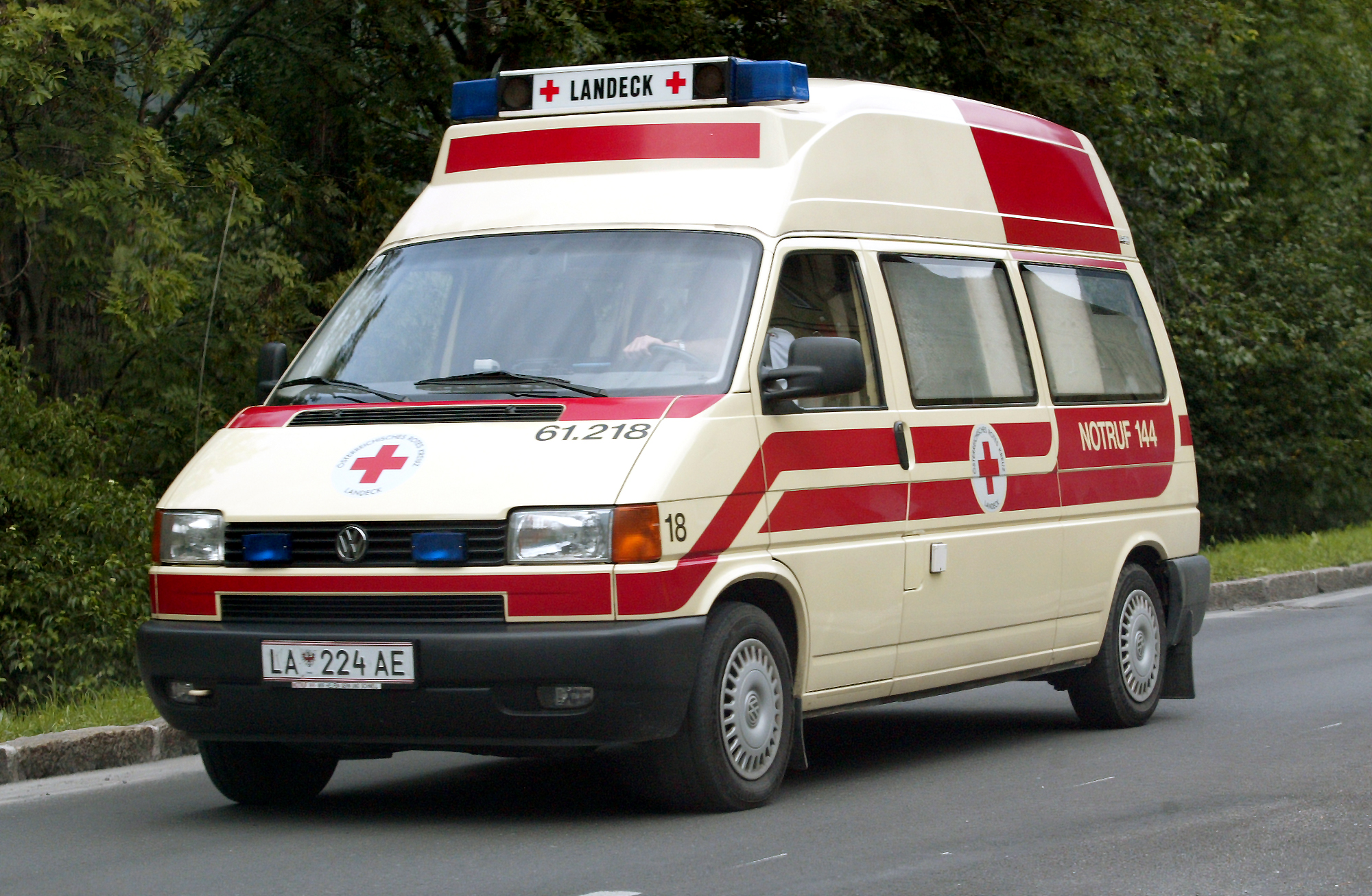 Austrian Red Cross Emergency Ambulance